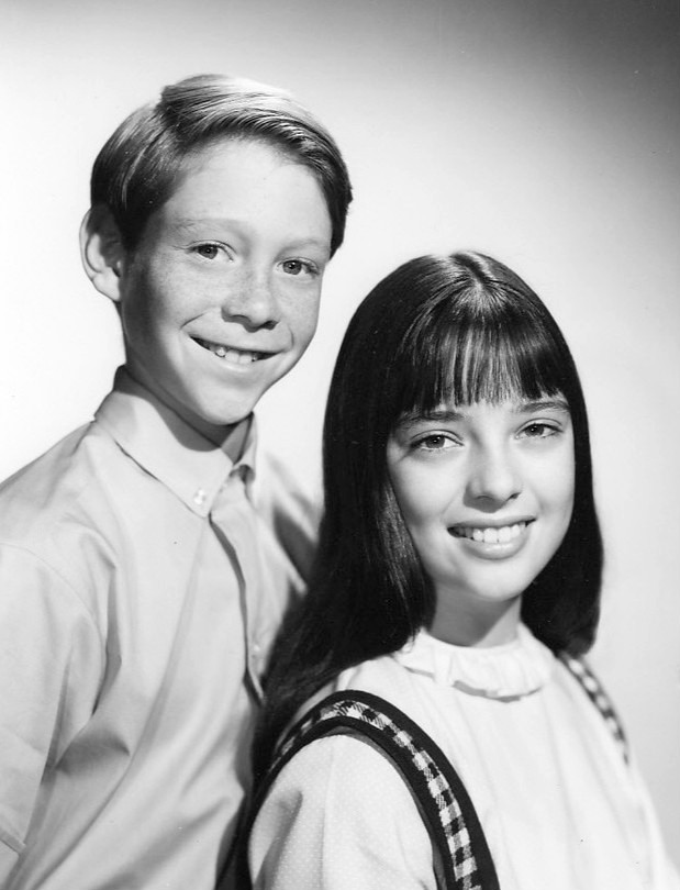 Photo of Billy Mumy and Angela Cartwright from the television program Lost in Space.